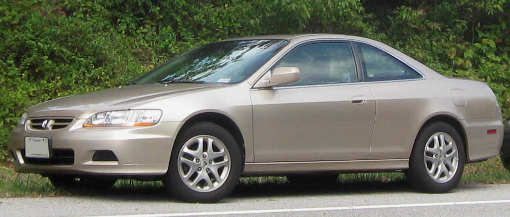 2001-2002 Honda Accord photographed in College Park, Maryland, USA.